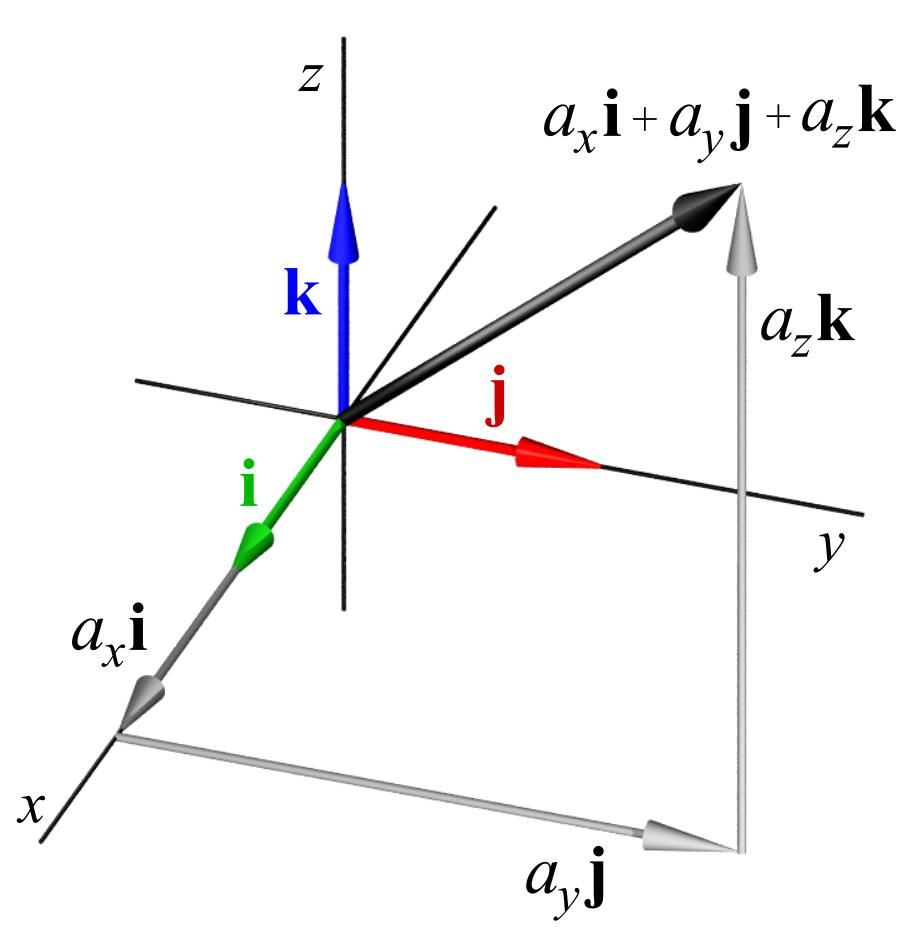 Coordinate system with base vectors